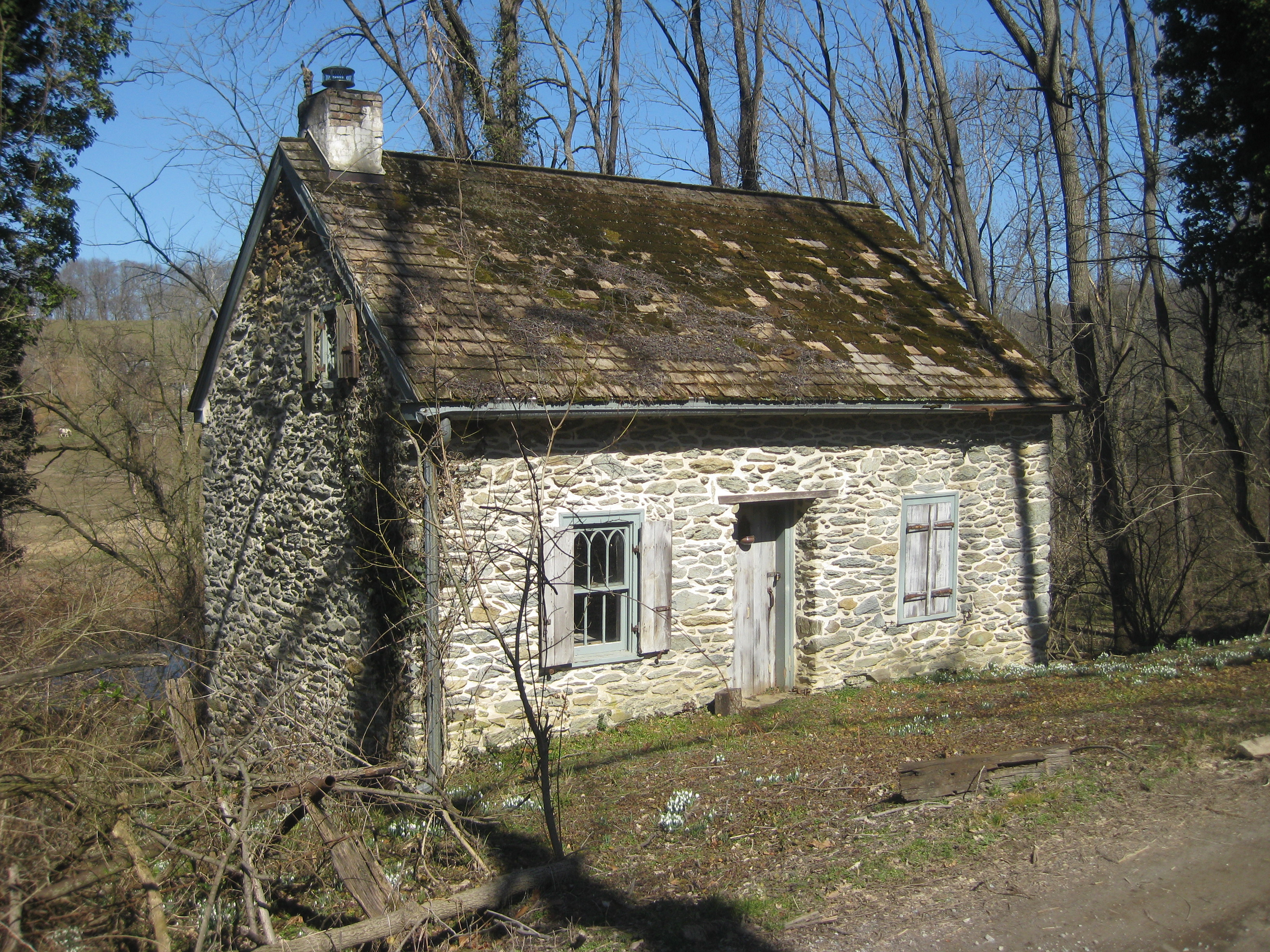 National Register of Historic Places House at Upper Laurel Iron Works (added 1985 - - #85002371) Also known as Site #49-10 Chester County - McCorkel's Rock Rd. , Newlin Twp. (5 acres, 1 building) Historic Significance: Event Area of Significance: Industry Period of Significance: 1850-1874